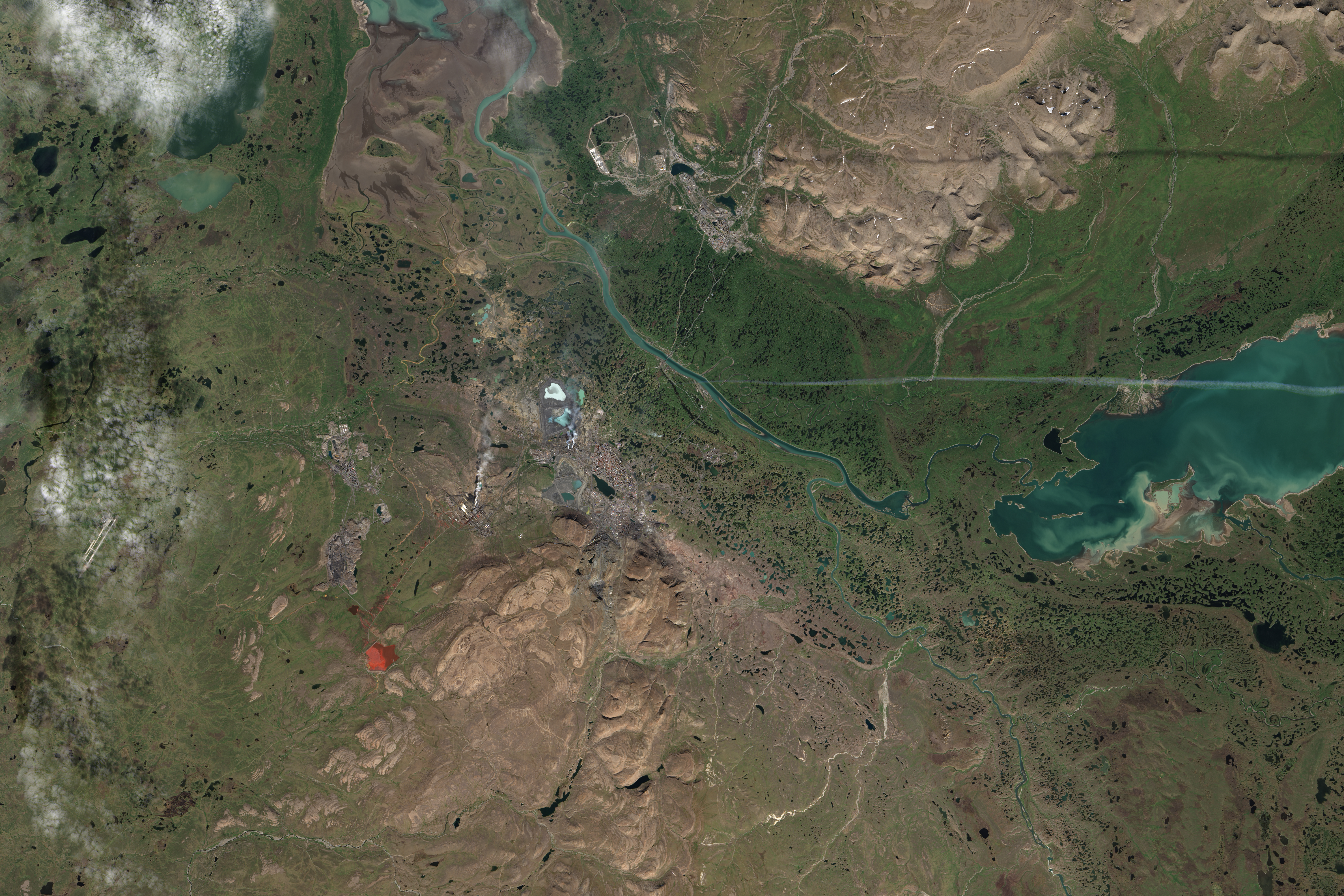 Landsat 8 (OLI) image of Norilsk area, August 2016